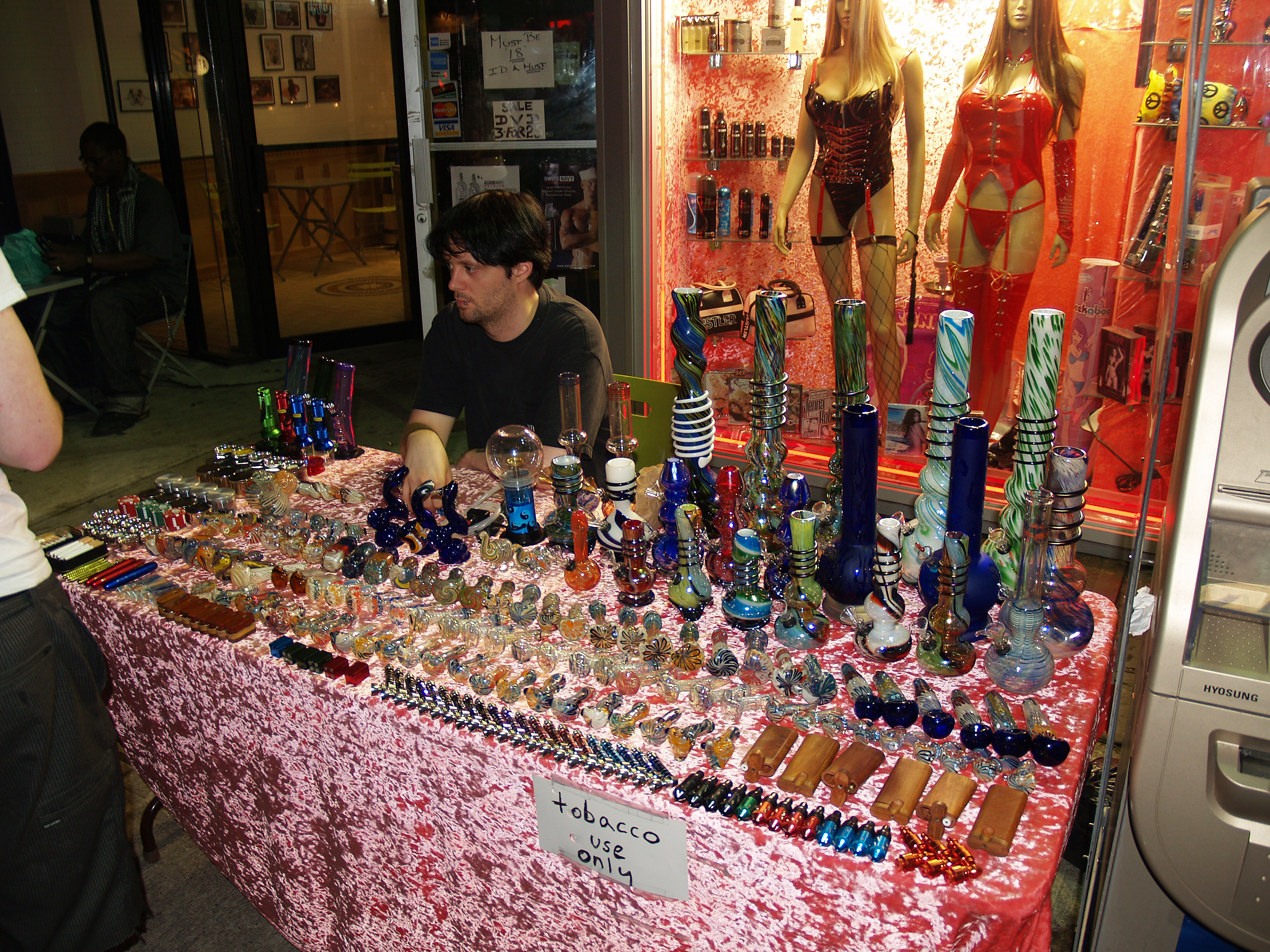 Bong and water pipe dealer on St. Mark's Place in Manhattan